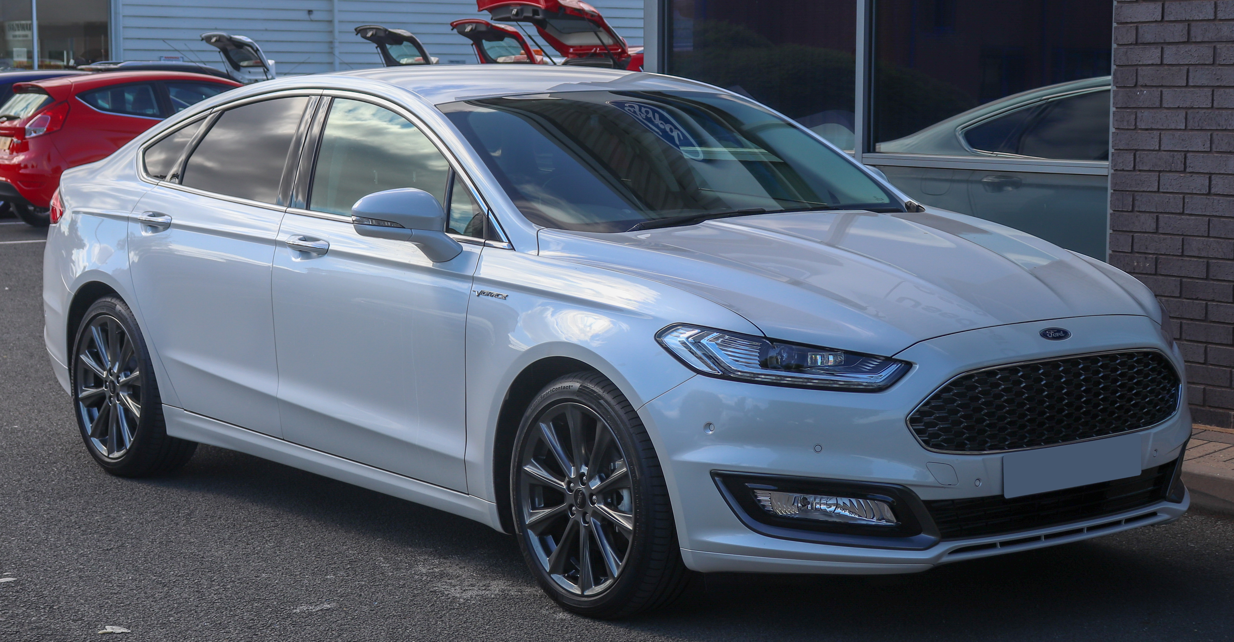 2018 Ford Mondeo Vignale TDCi Automatic 2.0 Front